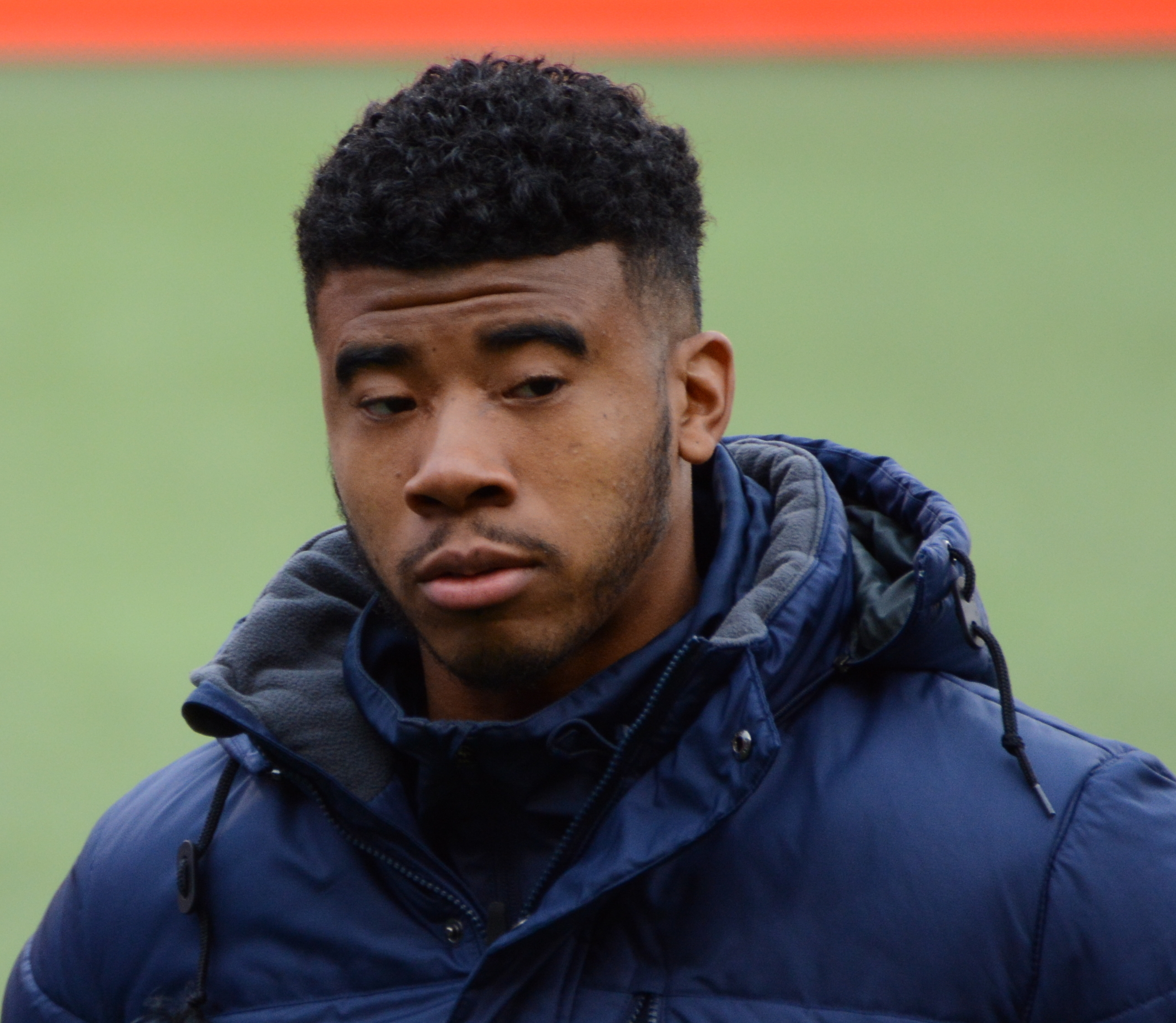 Taken during a USL regular season match between FC Cincinnati and Pittsburgh Riverhounds at Nippert Stadium in Cincinnati, USA on April 21, 2018.